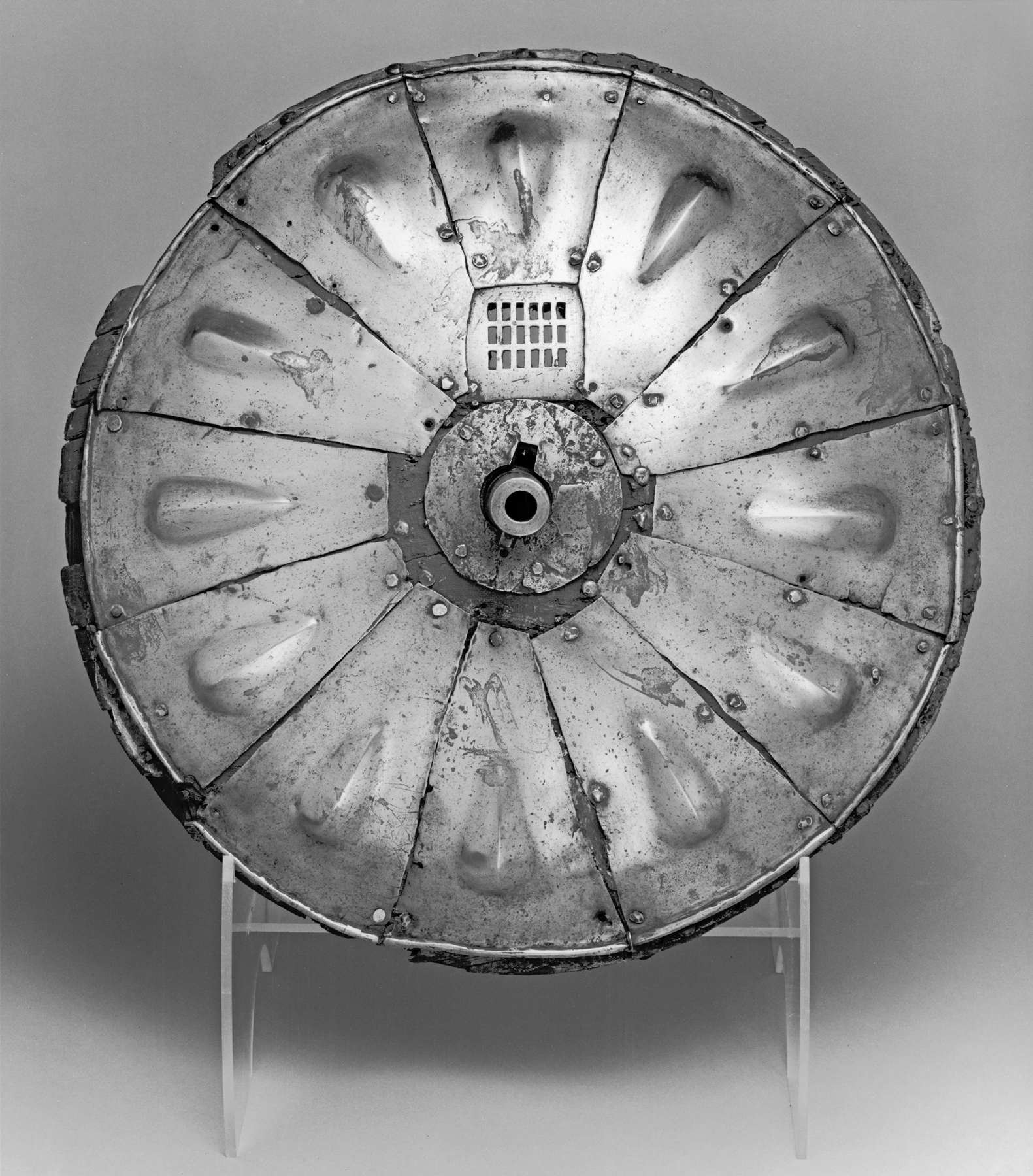 This is a rare, experimental combination of body armor (shield) and a weapon (matchlock gun). The gunsmith Giovanni Battista of Ravenna proposed this gun shield to King Henry VIII of England in 1544. Interested in technology, the king had 100 made for his bodyguards. As a firearm, it was too heavy to aim unless rested on a support and was rejected for use. However, in the late 1600s, 66 were still kept in the royal armory, perhaps as curiosities. Technological hybrids were appreciated as attempts to do two things at once. Lock mechanisms for firing guns were made by smiths who made locks for doors or chests. A door lock by Henry VIII's master locksmith is in the Collector's Study.